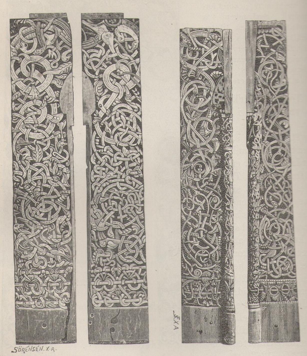 Print of portals from Tønjum stave church. The one on the left is presumably from the main entrance. The church collapsed in a storm in 1824.